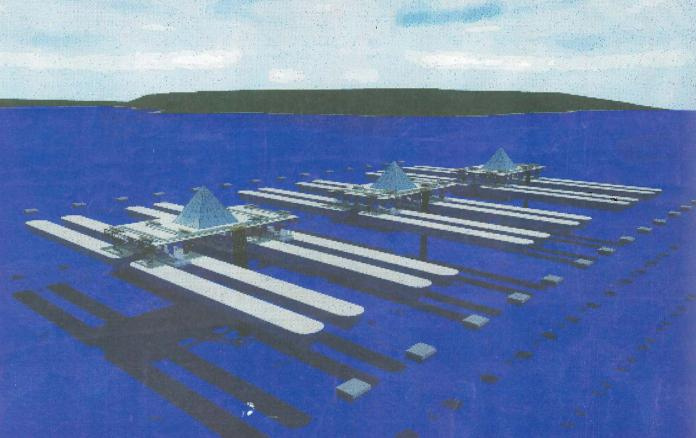 CH2M-HILL loading system design for 500,000 acre feet per year